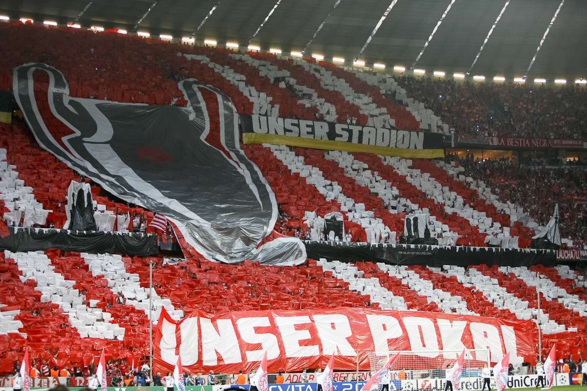 UEFA Champions League Final. FC Bayern München 1-1 Chelsea FC (aet, Chelsea win 4-3 on penalties)